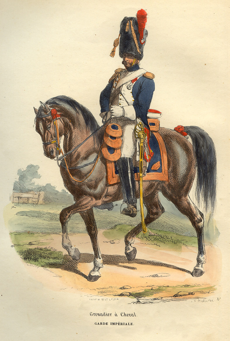 French horse mounted grenadier of Napoleon Guard. From book of P.-M. Laurent de L`Ardeche «Histoire de Napoleon», 1843